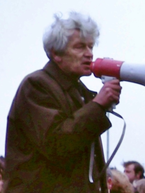 E P Thompson addresses anti-nuclear weapons rally, Oxford, England, 1980